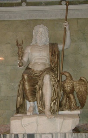 Statue of Zeus somewhere in the Hermitage